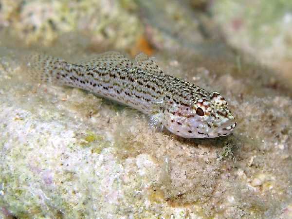 Gobius fallax photographed near Hvar, Croatia.